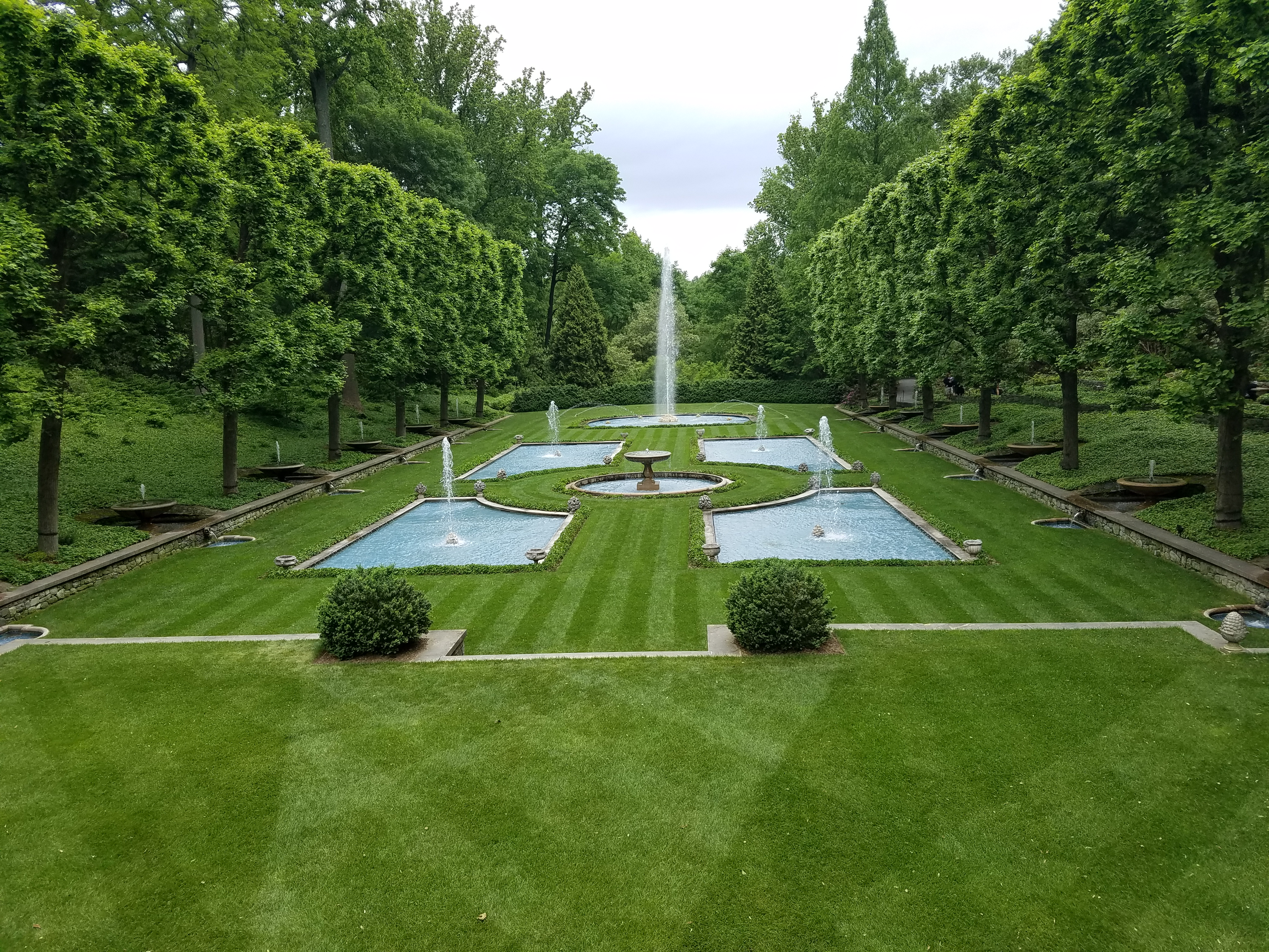 Based on the gardens of the Villa Gamberaia, directly outside of Florence (Firenze), Tuscany, Italy.